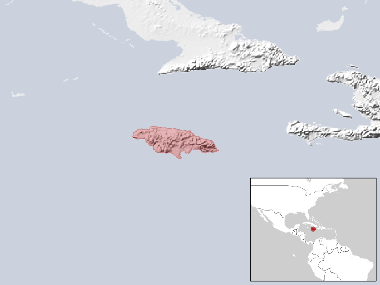 geographic distribution of Ariteus flavescens